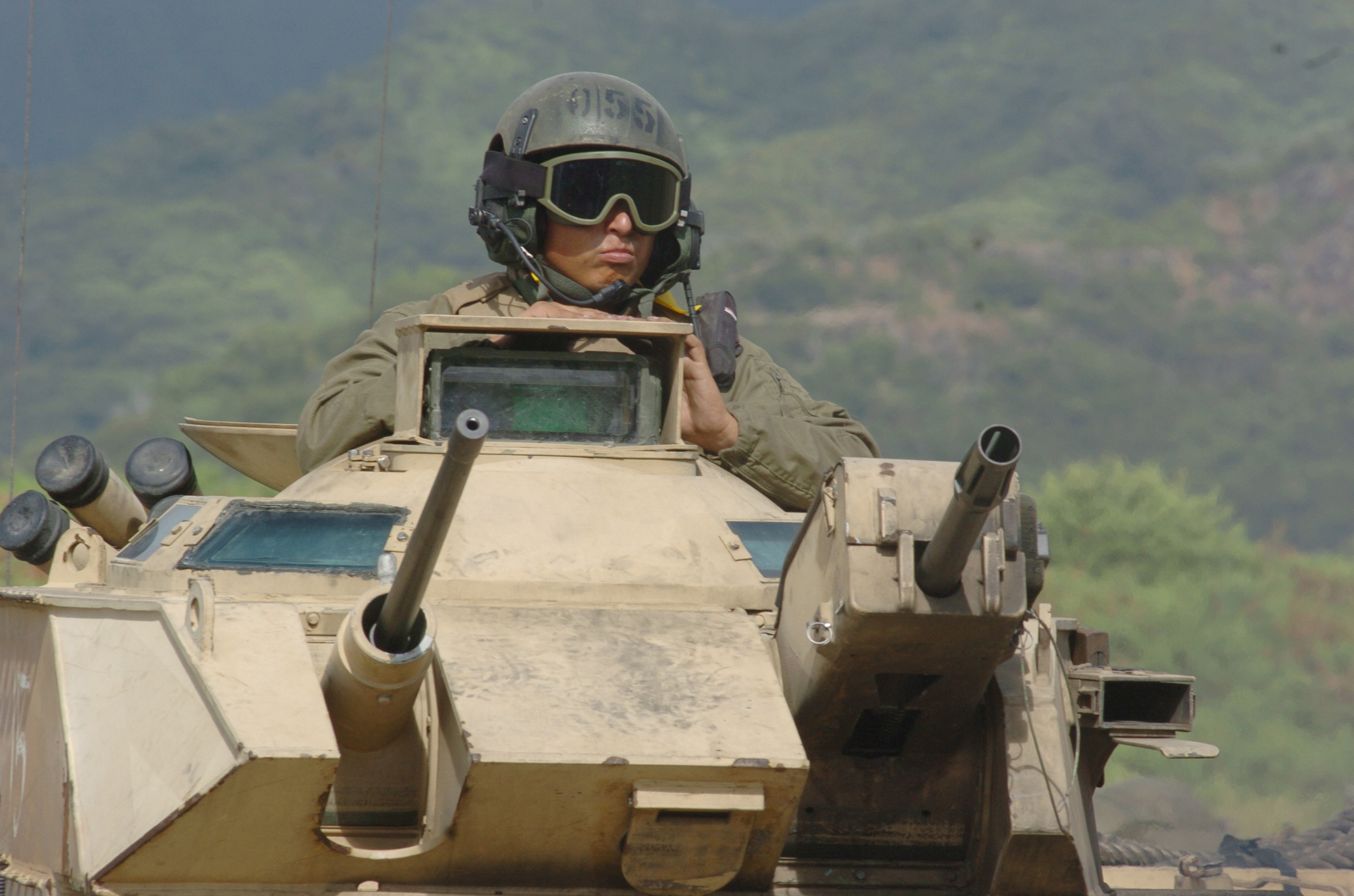 Oahu, Hawaii (June 27, 2005) - A Marine assigned to the 3rd Assault Amphibian Battalion based at Camp Pendelton, Calif., mans the turrets of his amphibious assault vehicle (AAV) during training in Oahu, Hawaii, after departing the amphibious assault ship USS Peleliu (LHA 5). Sailors and Marines assigned to Peleliu are currently conducting amphibious training on the beaches of Pacific Missile Range Facility. U.S. Navy photo by Journalist 2nd Class Zack Baddorf (RELEASED)